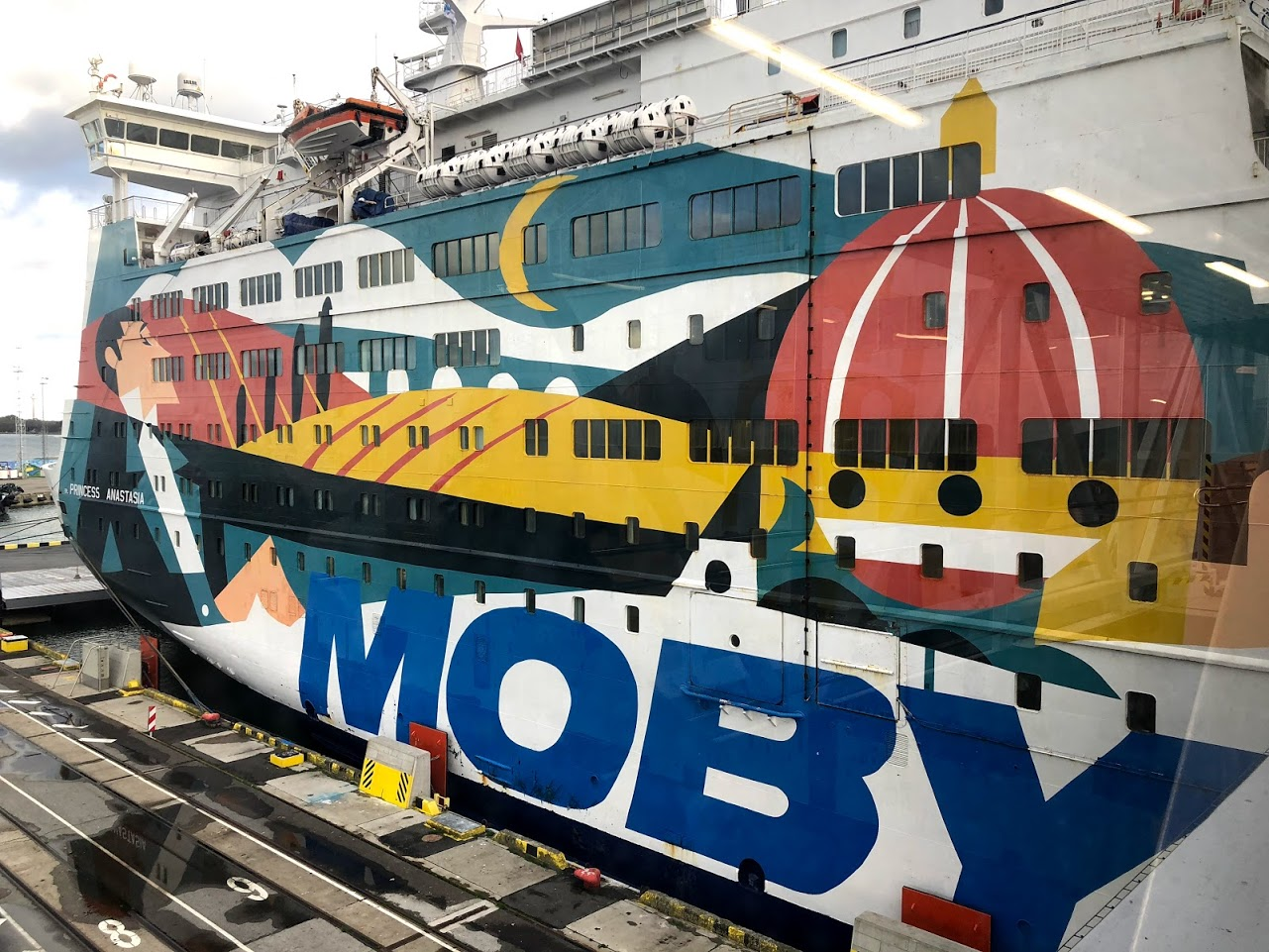 A photograph of Princess Anastasia in St Peterline Moby livery taken in October 2018